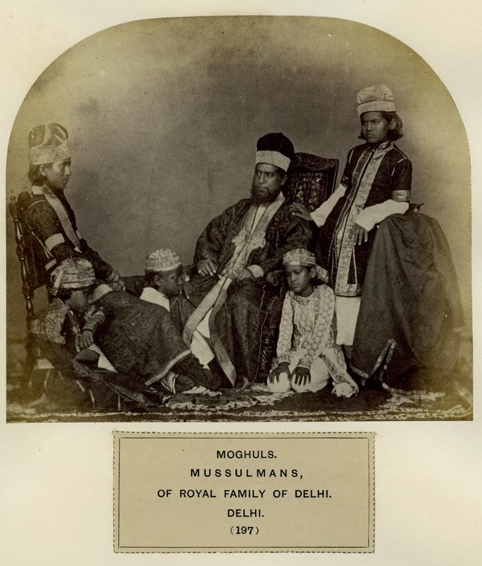 A photo from 'The People of India', published from 1868 to the early 1870's by WH Allen, for the India Office; *a clearer scan of the photo* Source: ebay, Feb. 2008